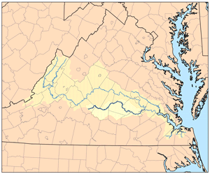 This is a map of the James River system with the Appomattox River highlighted. I, Karl Musser, created it based on USGS data.